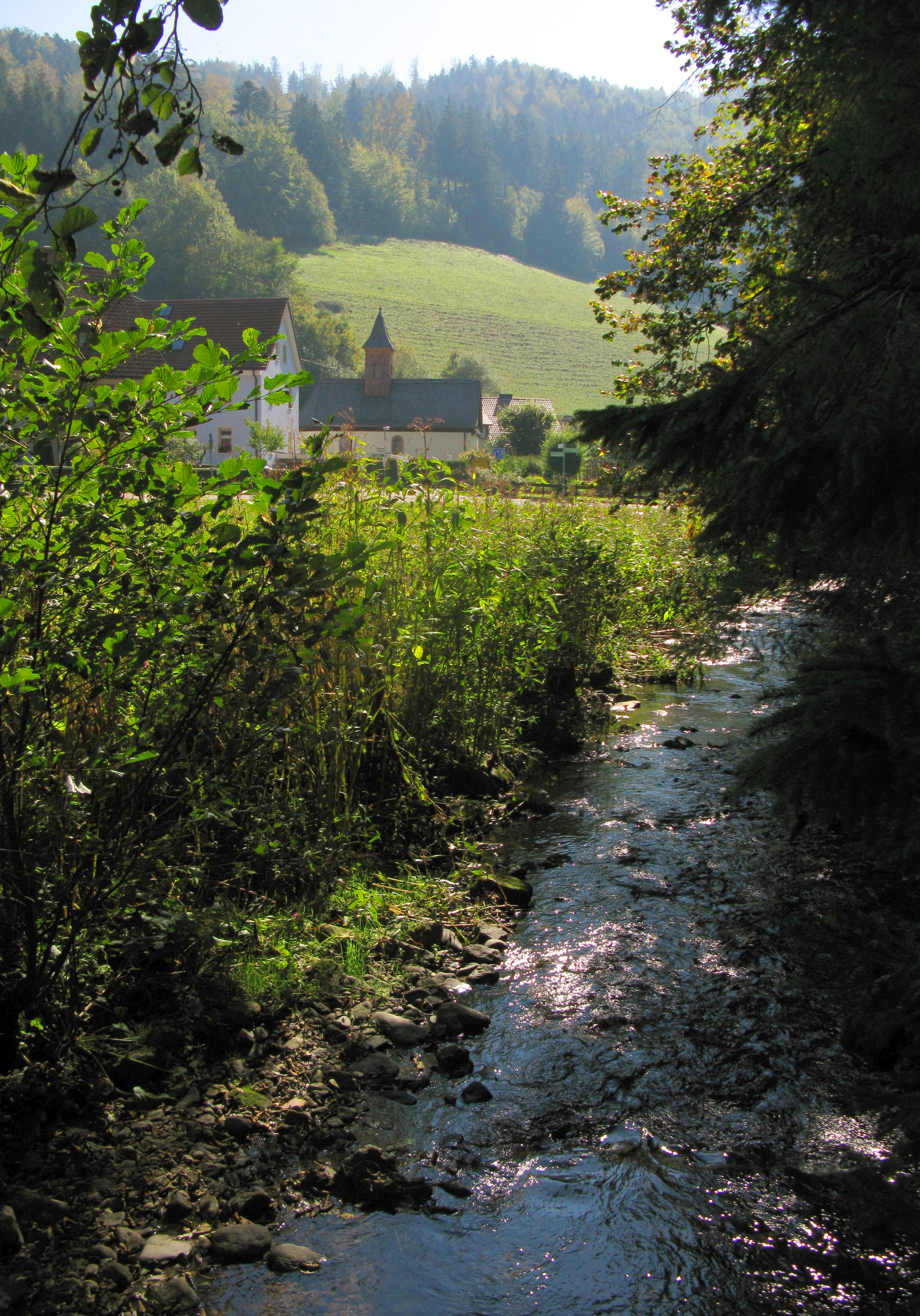 Wagensteigbach with chapel of Wagensteig